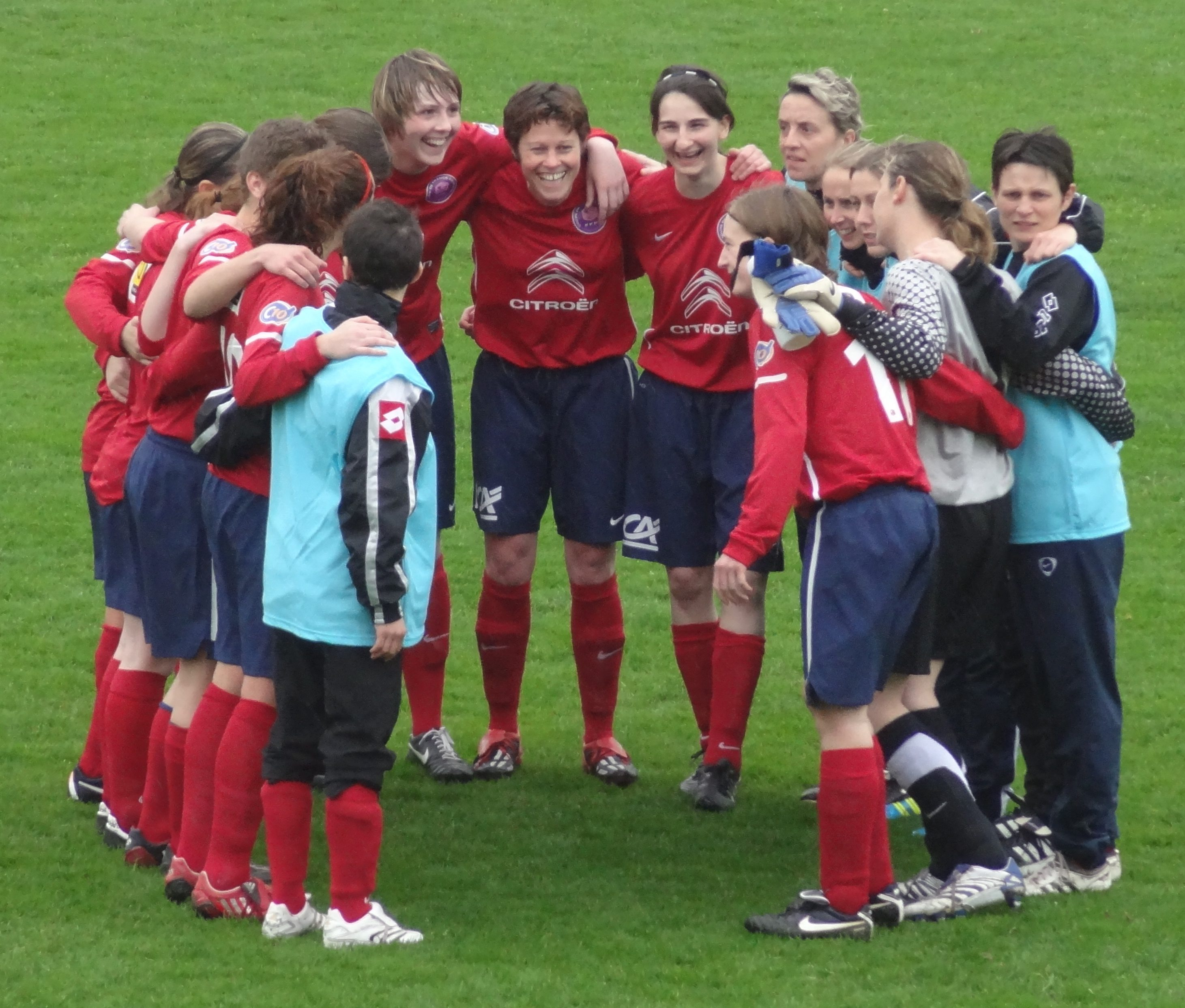 Joueuses d'Arras Football féminin (vs Lyon)